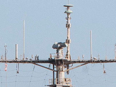 View of the Mark 23 Target Acquisition System aboard the U.S. Navy aircraft carrier USS Enterprise (CVN-65) on 4 June 2012.